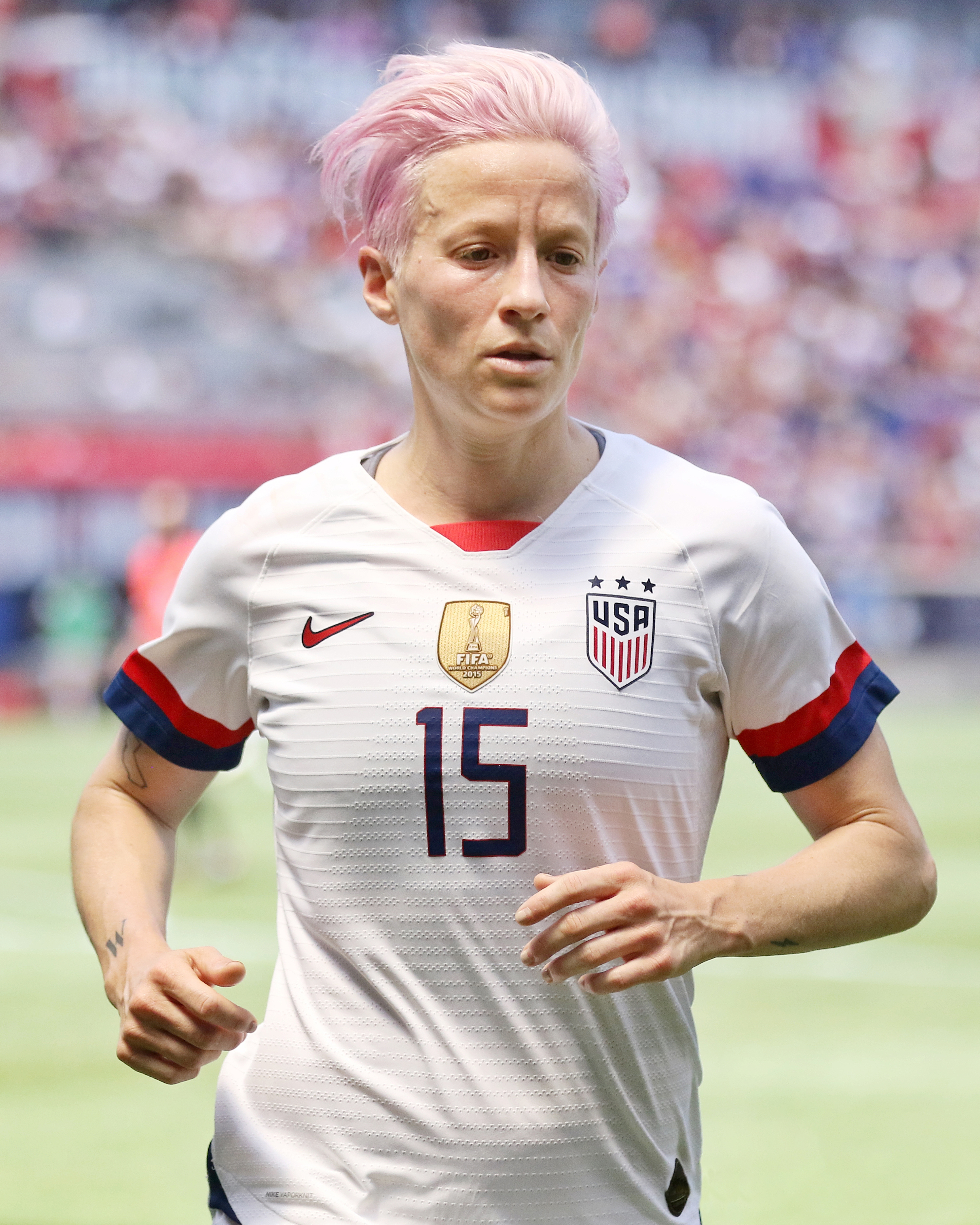 Megan Rapinoe in 2019